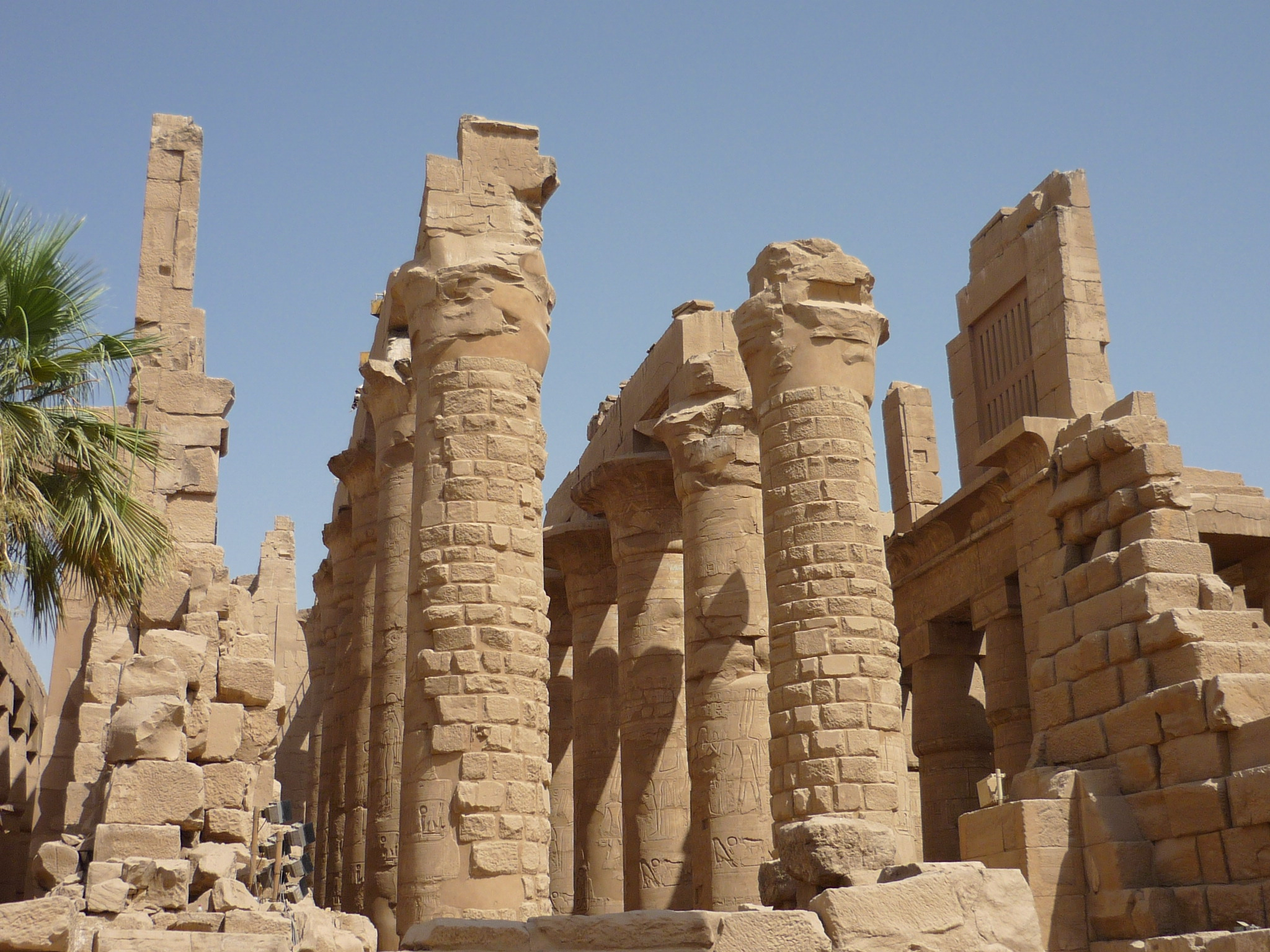 Great hypostyle hall, Karnak temple of Amun-Ra, Egypt